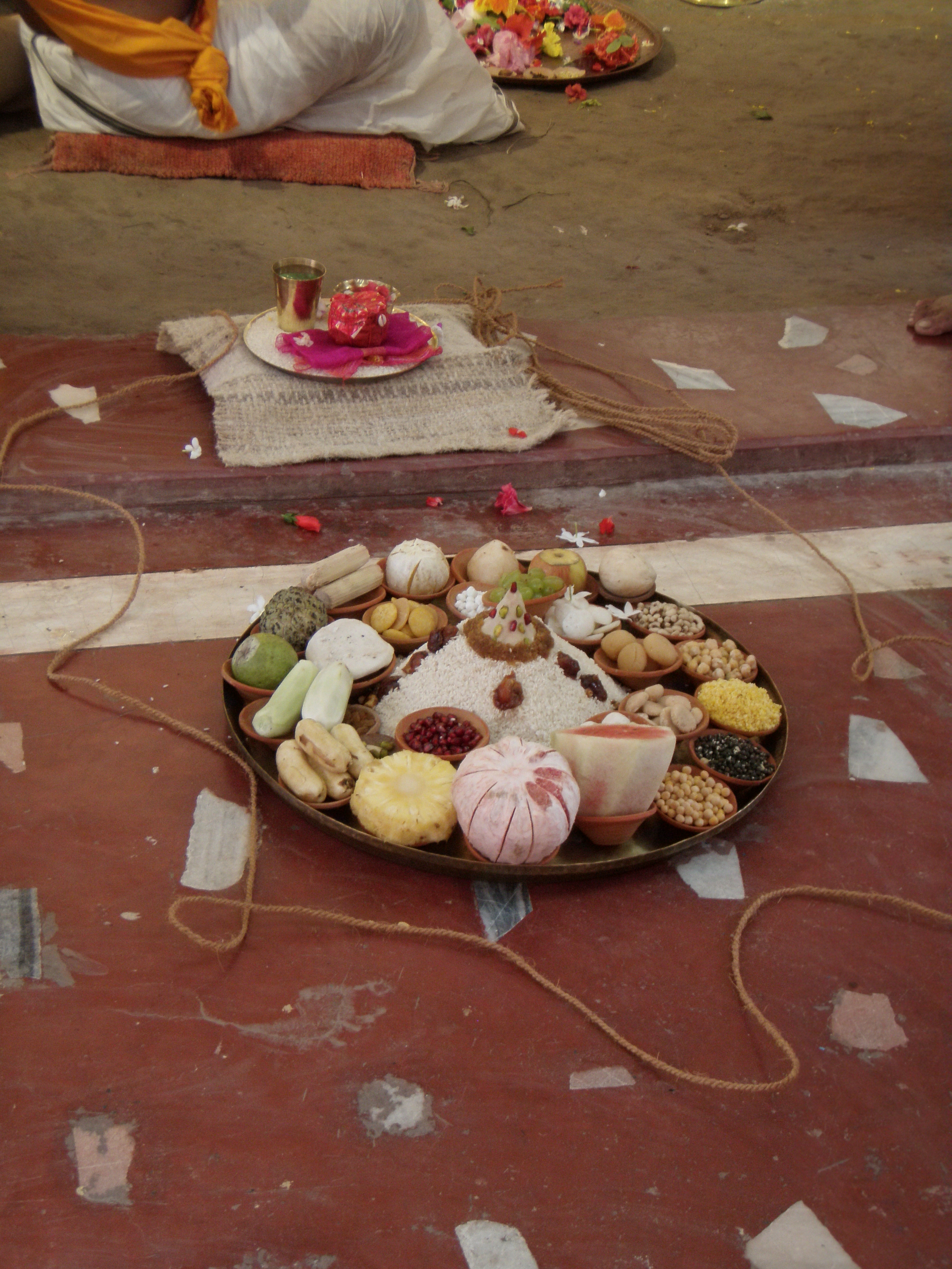 Durga Puja Offerings at the oldest Durga Puja in Kolkata of the Sabarna Roy Choudhury family, that started by Laksmikanta Gangopadhyay.